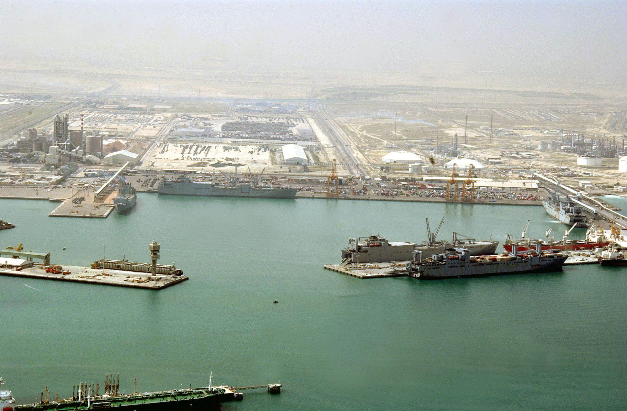 Ash Shuaybah, Kuwait (Mar. 1, 2004) – Aerial view of the port of Ash Shuaybah, Kuwait. Several U.S. Military Sealift Command (MSC) supply ships are shown moored at the facility. MSC is providing the Department of Defense with strategic sealift and ocean transportation for all military forces participating in Operation Iraqi Freedom. U.S. Navy photo by Journalist 3rd Class Eric L. Beauregard (RELEASED)